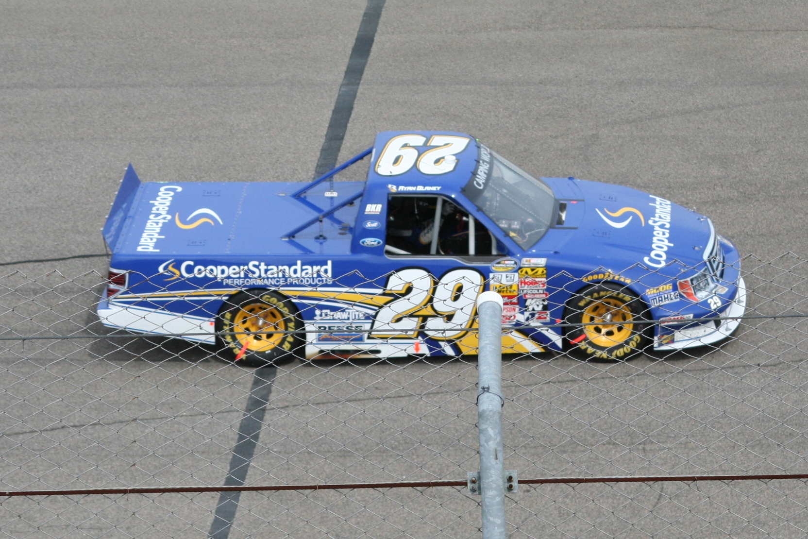 Ryan Blaney drives the No. 29 Cooper Standard Ford for Brad Keselowski Racing during the North Carolina Education Lottery 200 at Rockingham Speedway, Rockingham, NC, April 14, 2013